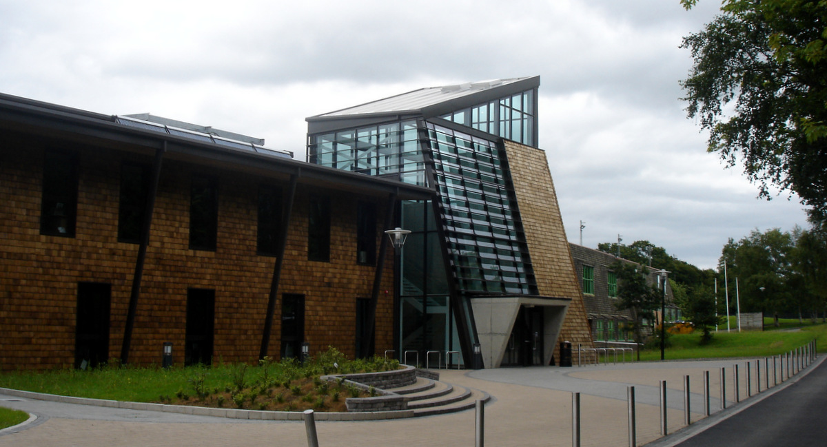 The 2012 redeveloped Physical Education and Sport Sciences (PESS) Building at the University of Limerick.